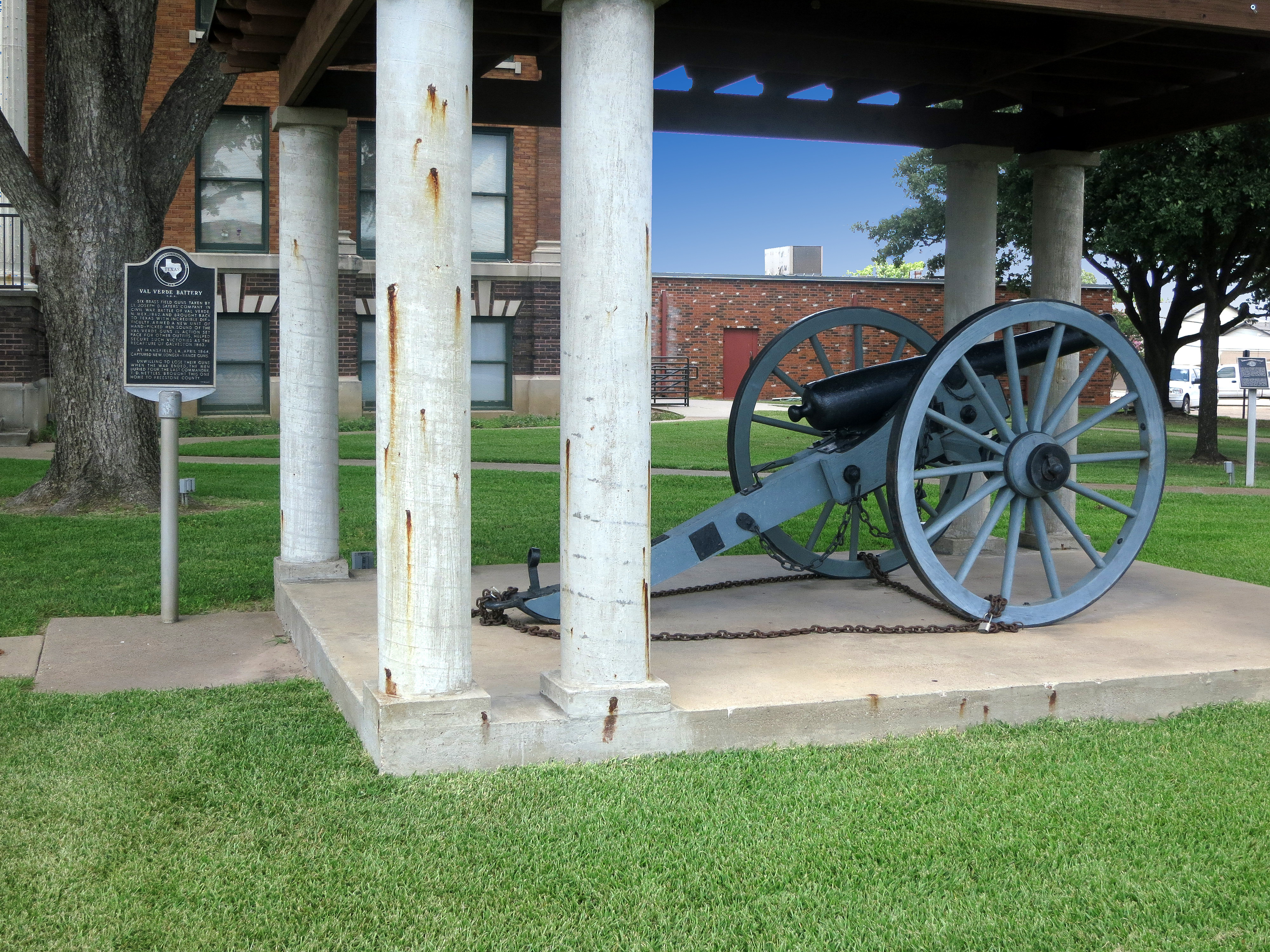 Six brass field guns taken by Lt. Joseph D. Sayers' Company in Civil War Battle of Val Verde, N. Mex., 1862, and brought back to Texas with incredible difficulty, armed a new unit of hand-picked men. Sound of the Val Verde guns in action set pace for other outfits, helped secure such victories as the recapture of Galveston, 1863. At Mansfield, La., April 1864, captured new, longer-range guns. Unwilling to lose their guns when the war ended, the men buried four. The last commander, T.D. Nettles, brought this one home to Freestone County.